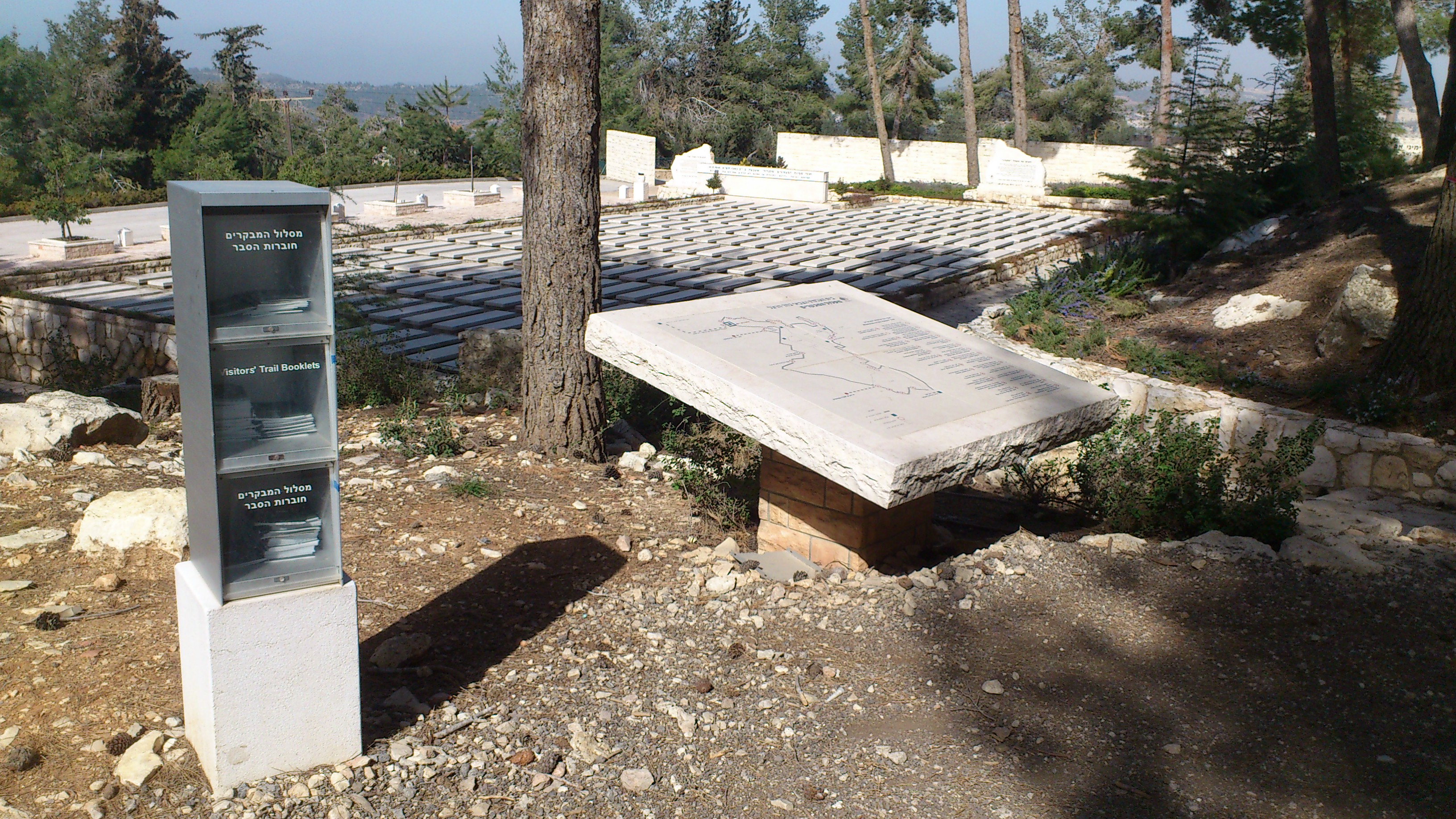 Mount Herzl - Visitors Trail